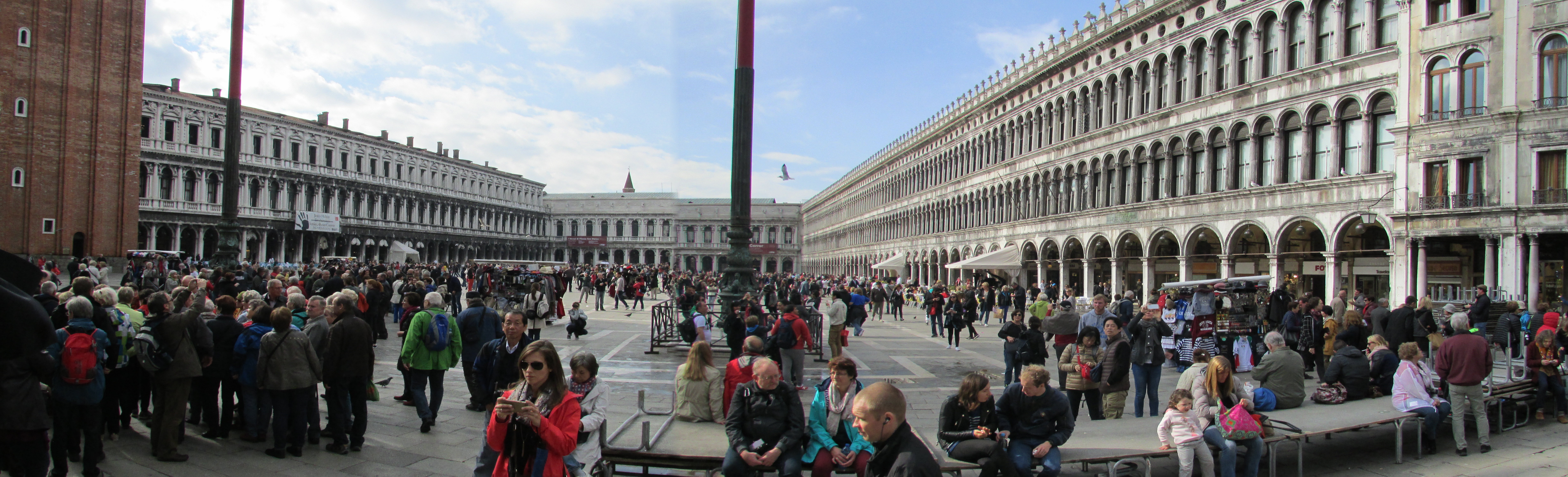 Piazza San Marcos, Venice Italy.